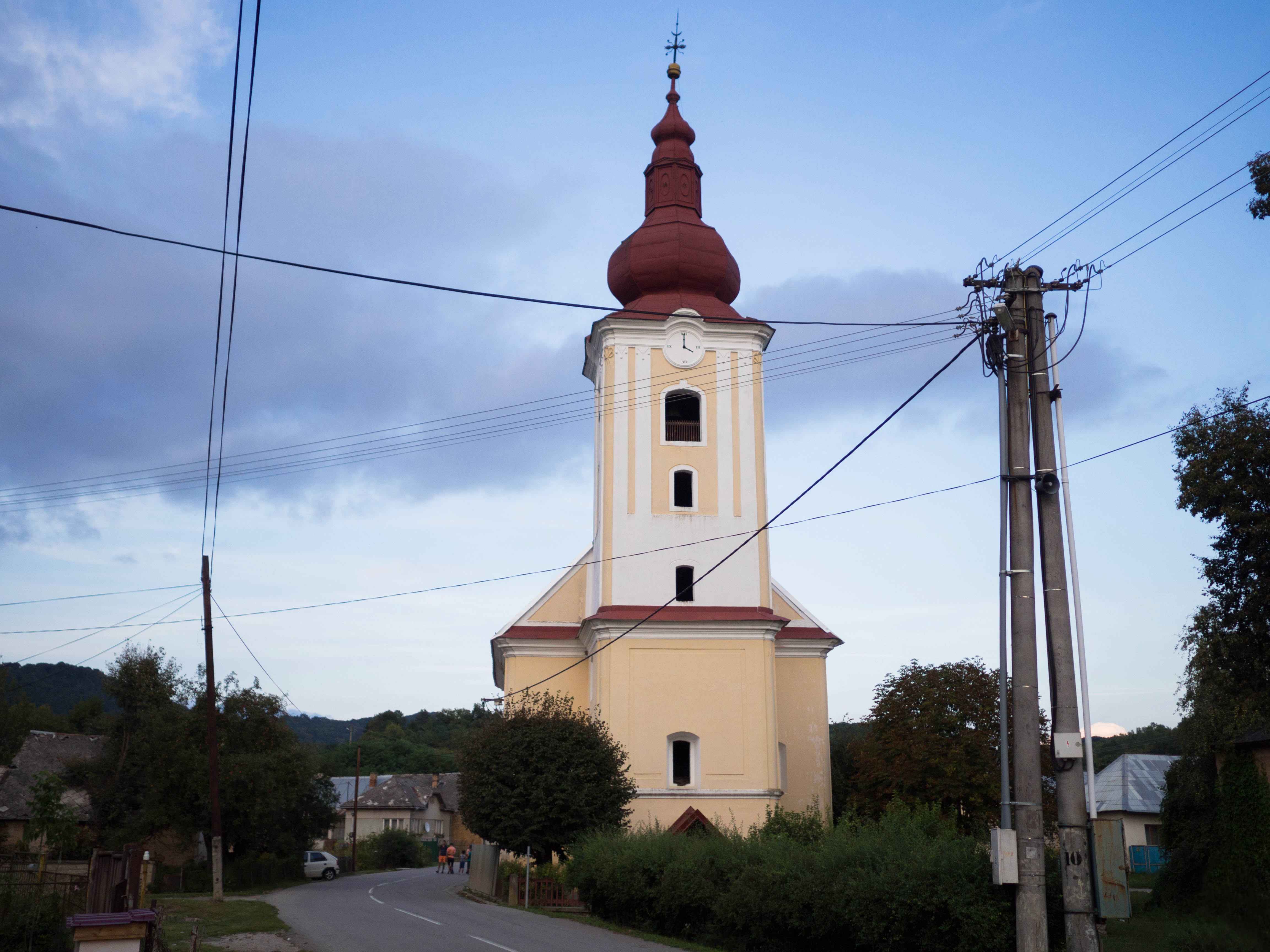 Lutheran Church in Nandraž, Slovakia.